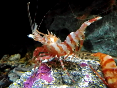 Lebbeus groenlandicus (Fabricius, 1775). at Aquaworld-Ōarai(Ōarai, Ibaraki).